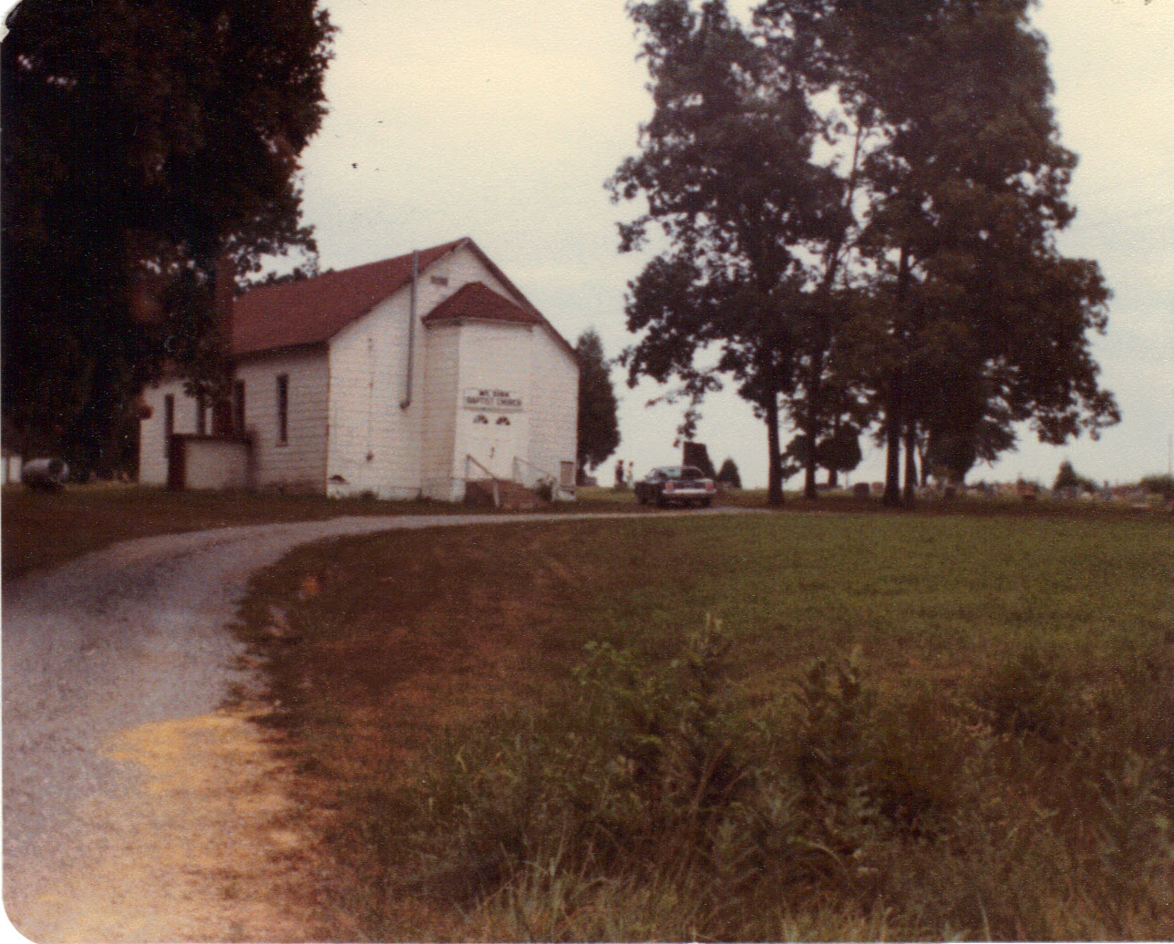 Lakeview Cemetery, Carrier Mills, Saline County, Illinois, USA Photo taken in 1982